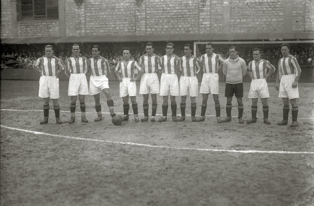 Real Sociedad squad in the 1930-31 League Season: Ilundain, Izaguirre, C. Bienzobas, Arana, Garmendia, Ayestaran, Amadeo, Marculeta, P. Bienzobas, Mariscal and Cholin